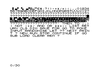 Screenshot of the output of the following simple ZX80 Sinclair Basic program which demonstrates the machine's character set for all code points; 0–255. 10 FOR C=0 TO 255 20 PRINT CHR$(C); 30 NEXT C Notes: The output includes tokenized BASIC keywords (excluding the ZX80's non tokenized functions such as CHR$ itself) and non-printable characters such as 64–127 and 192–211 which appear as question marks (although some are used as control codes). Code point 1 is the double quote character (") when used in the video memory (called the display file) but CHR$(1) returns a null string so it does not appear in the beginning of this output; CHR$(212) translates to the double quote character (") which can be seen later in the output.